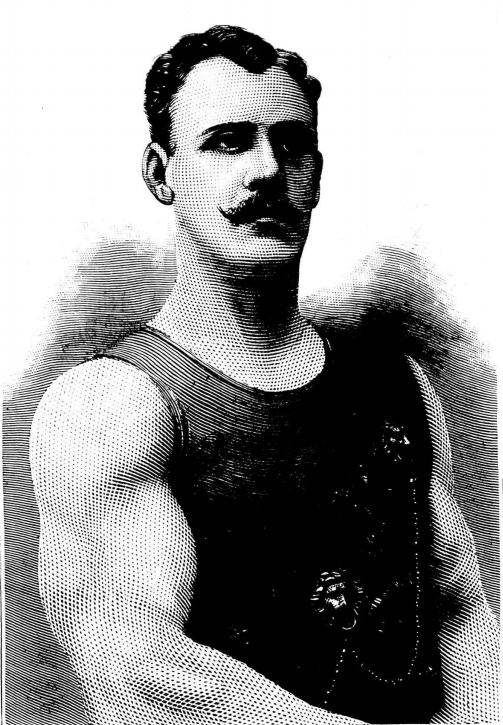 Another Swedish strong man, who has joined fortunes with Oscar B. Wahlund, and is now exhibiting in this country.